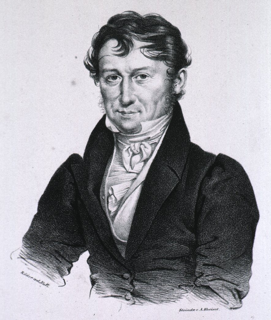 August Carl Bock, a.k.a. August Carl Bock (1782–1883)